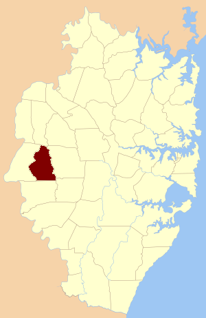 original location of the parish within Cumberland County, New South Wales (Sydney area)